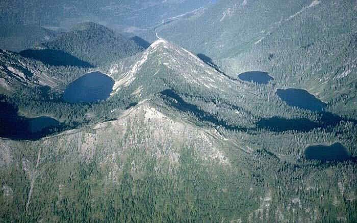 An aerial photo of the Jewel Basin Hiking Area, Flathead National Forest, Montana.